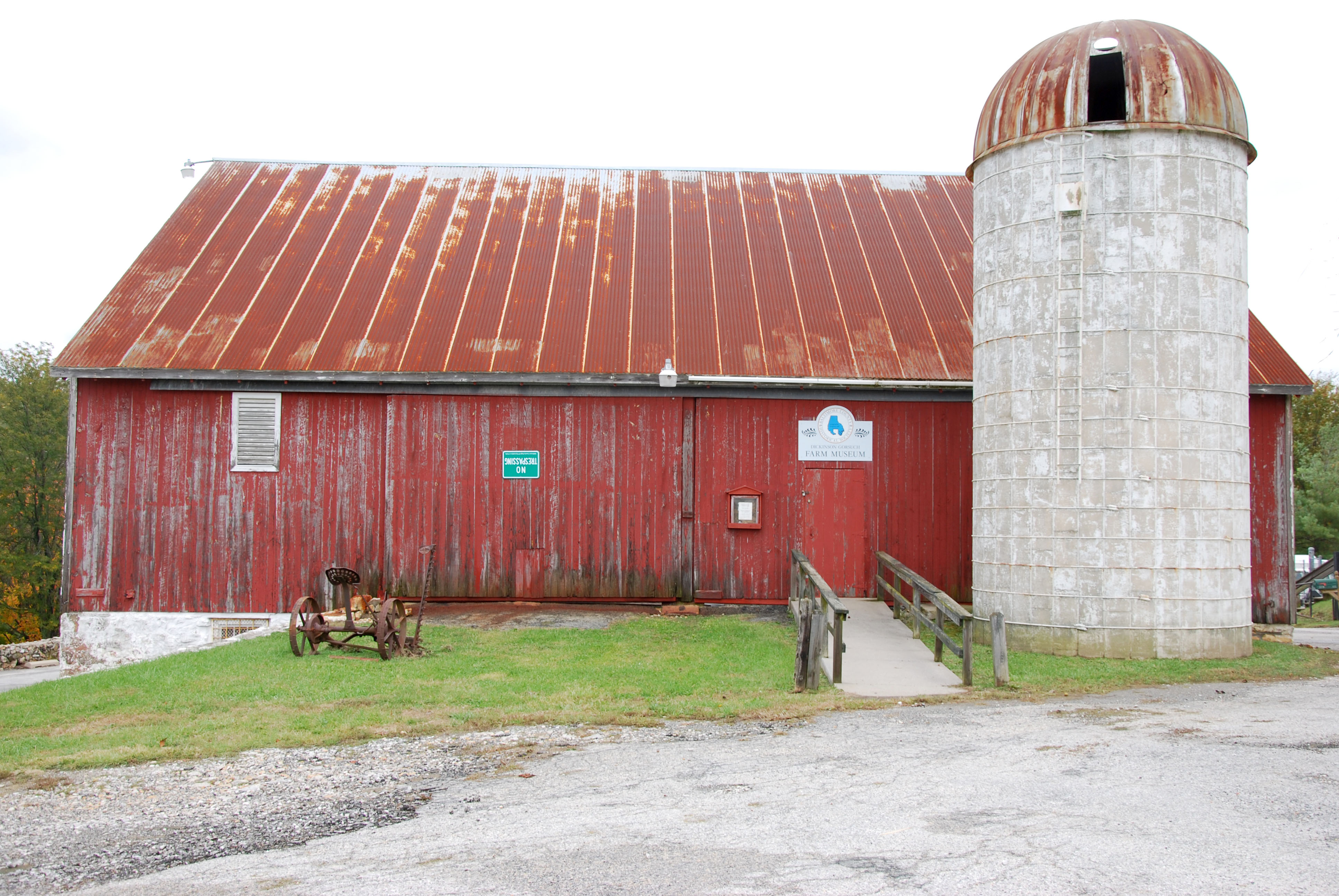 The barn, located in County Home Park in Cockeysville, MD, is owned by Baltimore County but used and operated by the Historical Society of Baltimore County, featuring their Dickenson-Gorsuch Farm Museum. (Photo. c2009).